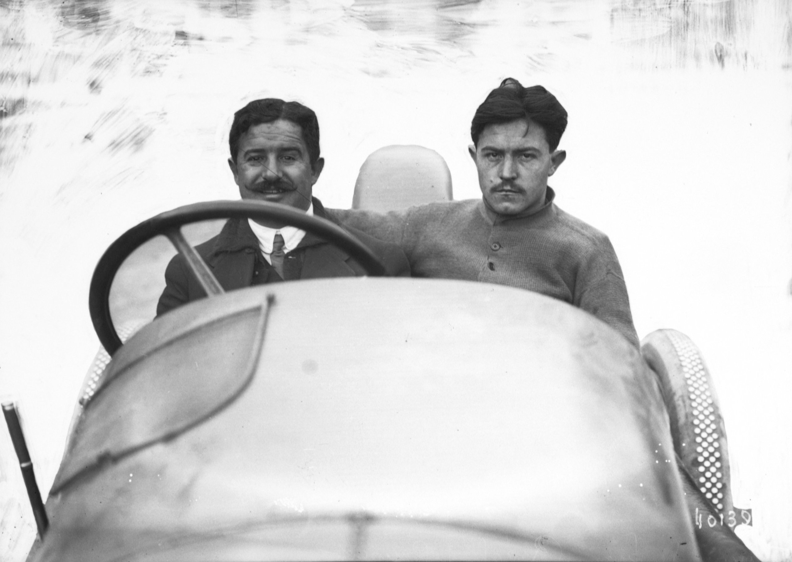 Victor Rigal at the 1914 French Grand Prix